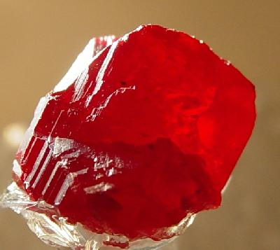 Cinnabar Locality: Lovelock, Pershing County, Nevada, USA (Locality at ) Size: thumbnail, 1 x .7 x .7 cm Cinnabar Very nice thumb consisting of several intergrown crystals, each with very good luster and, of course, superb color. RARE OLD LOCALITY!